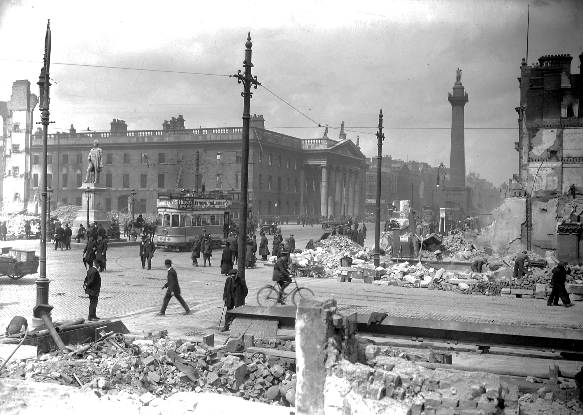 The tram passing by was numbered 244. The ads on the tram are for Donnelly's Bacon, Hudson's Super Soap and the Metropolitan Laundry. An ad for Bovil can just be made out on another tram. In the foreground, the bearded man (very nautical vibe) is considering a huge slab on the ground. Can't make out all of it but it obviously adorned [...] Chambers. Date: May 1916 NLI Ref.: KE 119